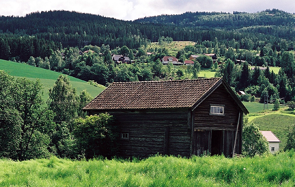 Stabbur, Jevnaker prestegard, Oppland. Cultural heritage monument 1991.